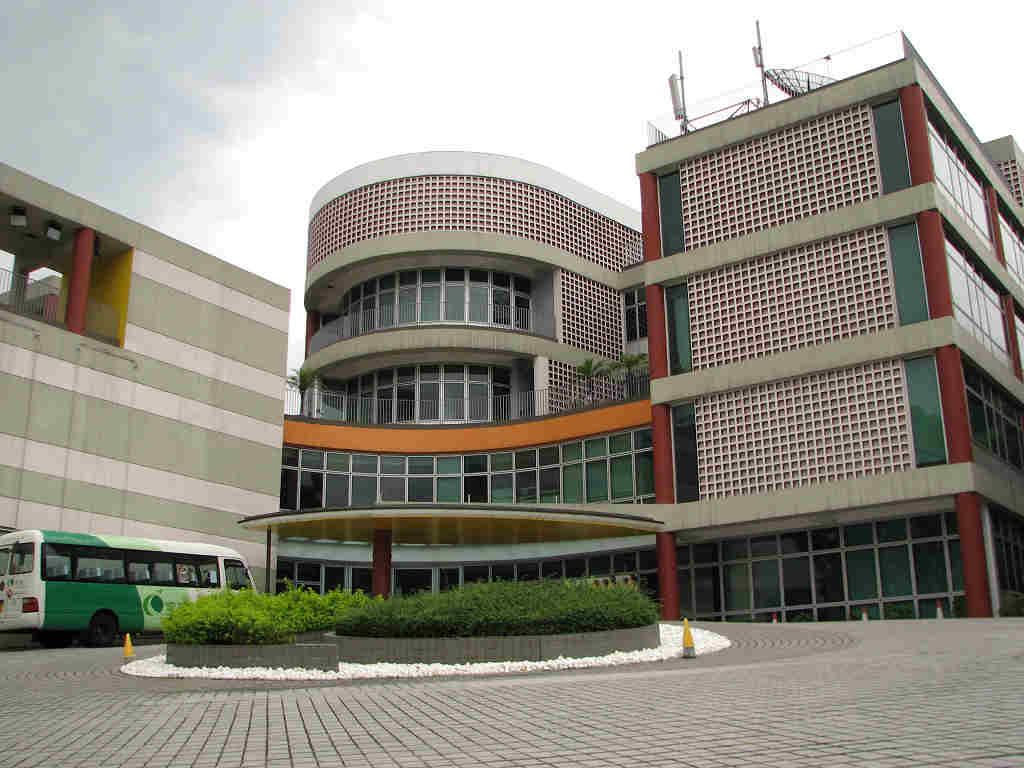 Breakthrough Youth Village, Shatin, Hong Kong